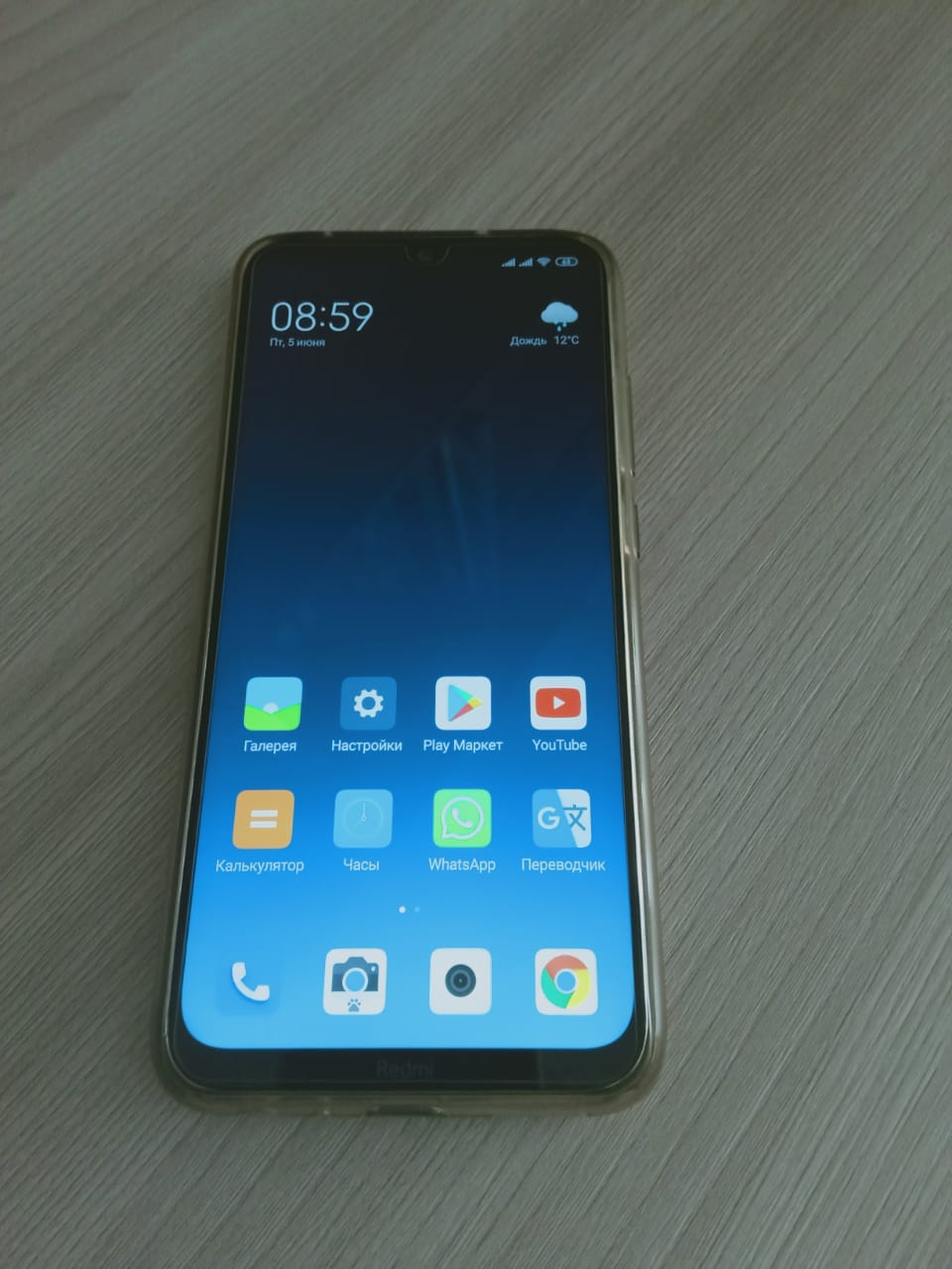 Front side of Redmi Note 8